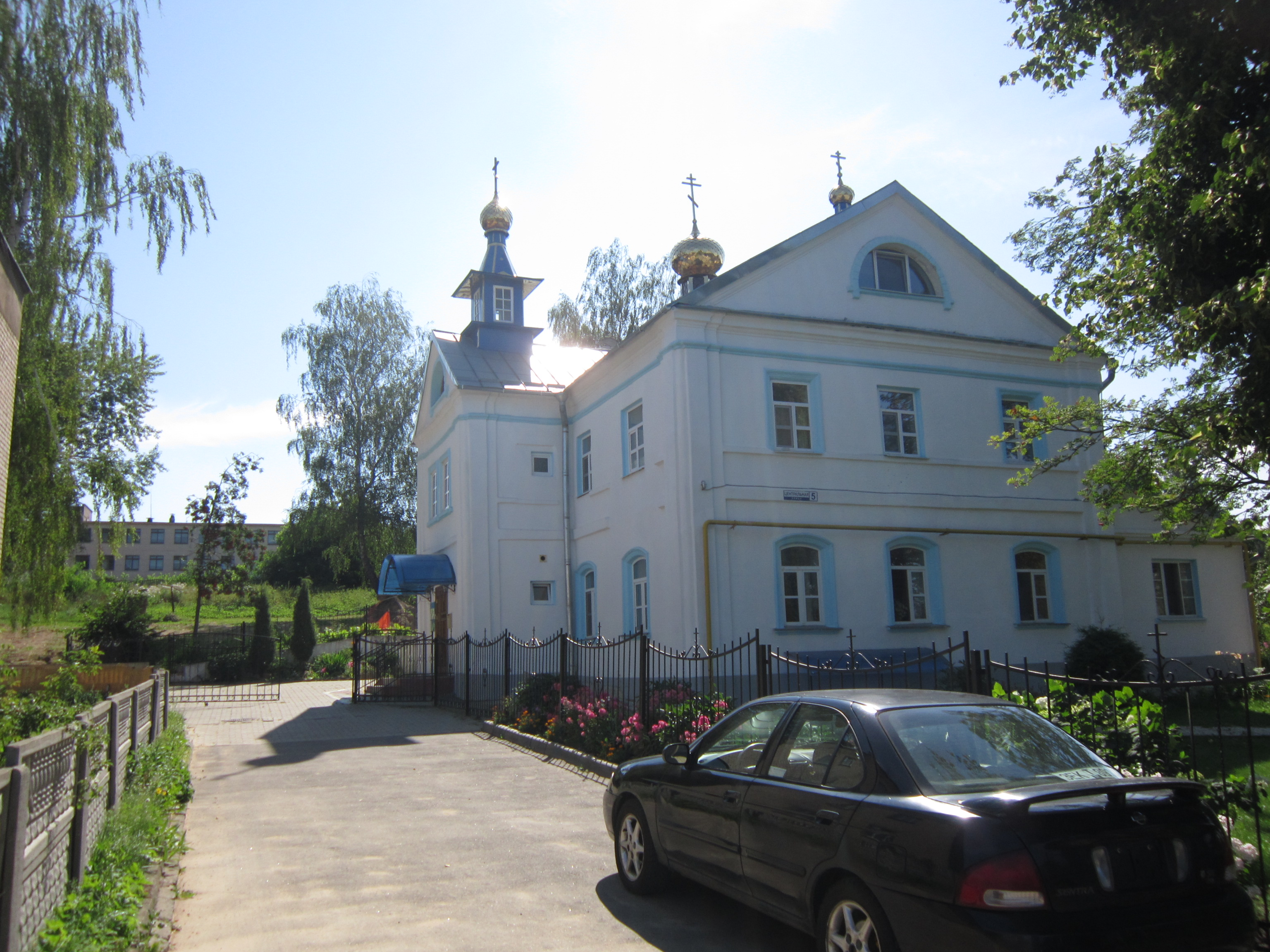 Agro-town (former village) Novy Dvor, Novy Dvor Sieĺsaviet, Minsk District, Belarus